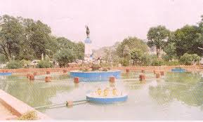 jhansi